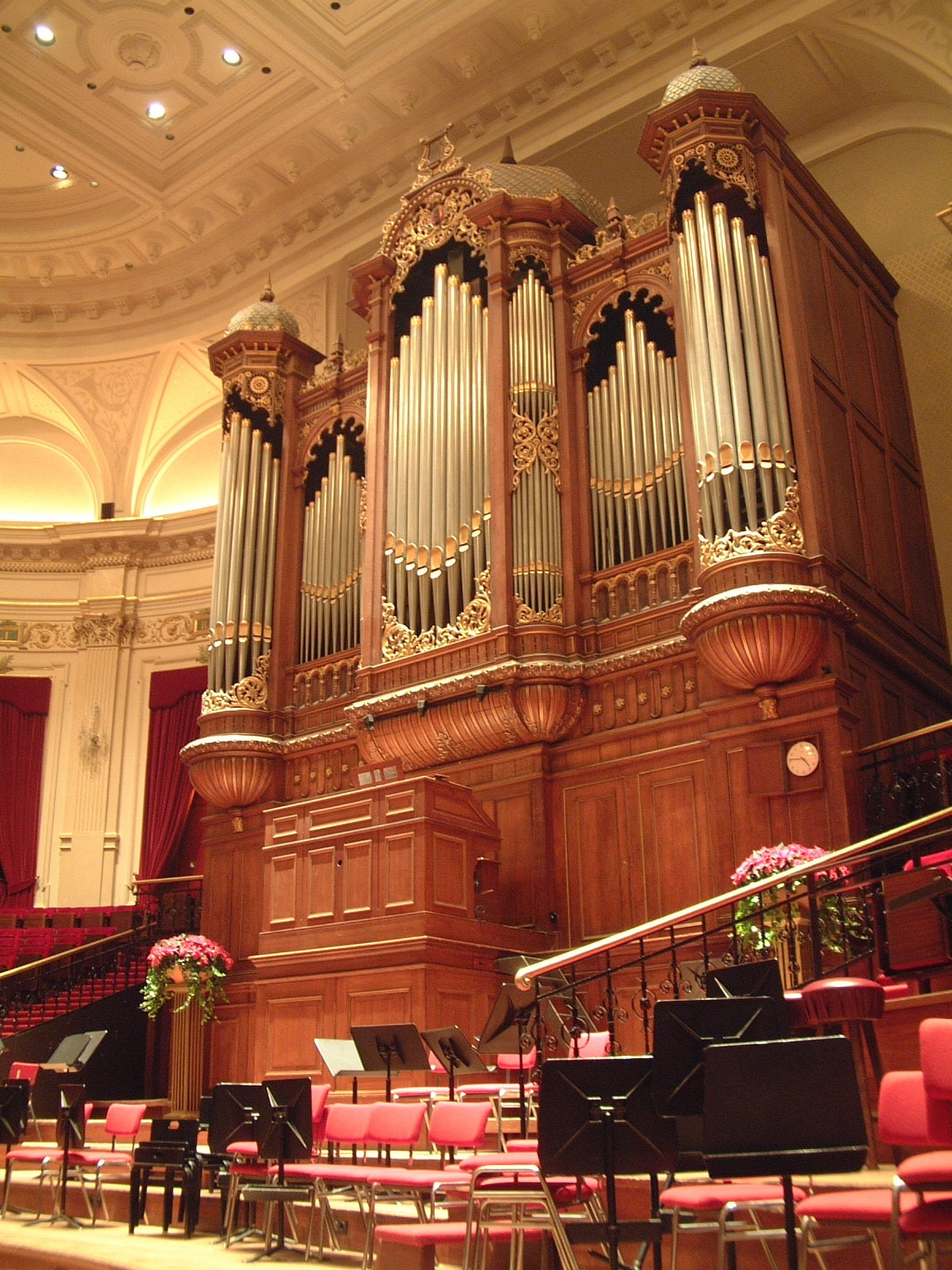 Organ from the "Concertgebouw" at Amsterdam